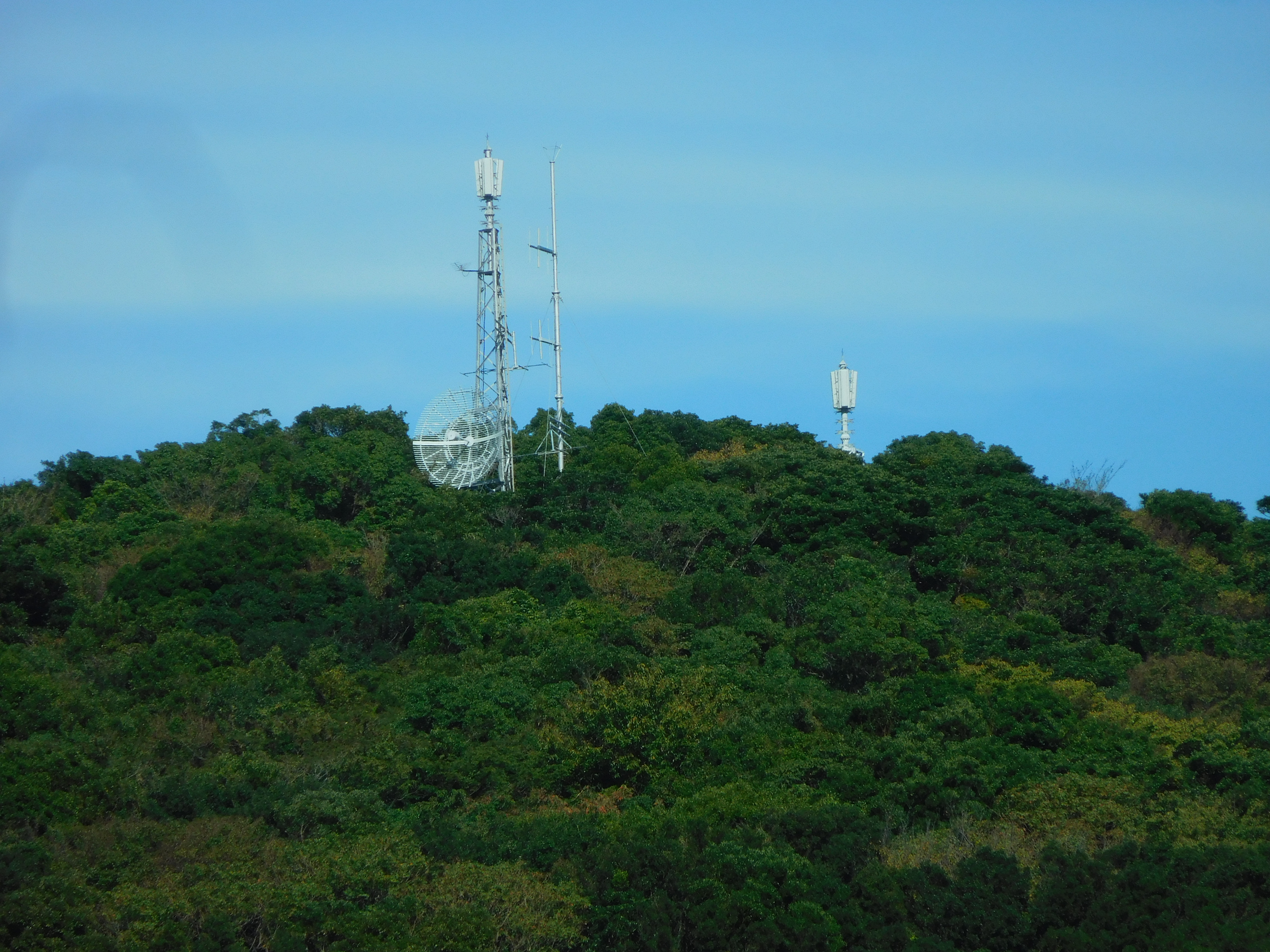 This is Toba Broadcast Relay Station in Toba, Mie, Japan.